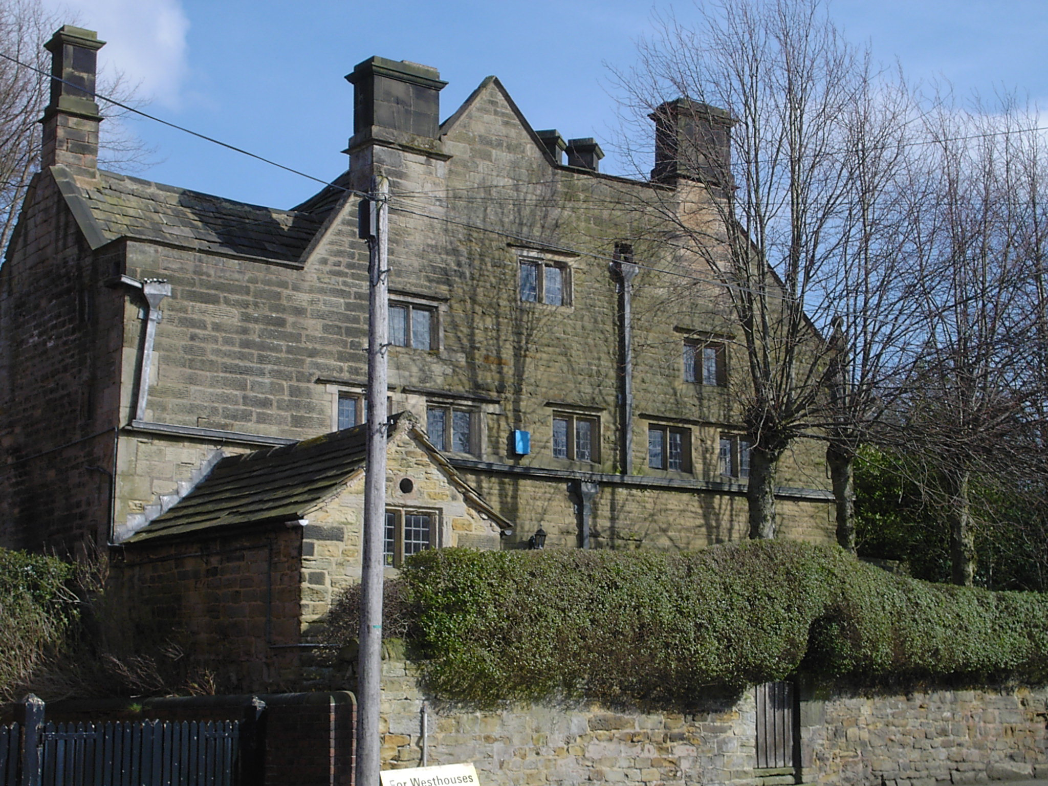 Newton - Hall